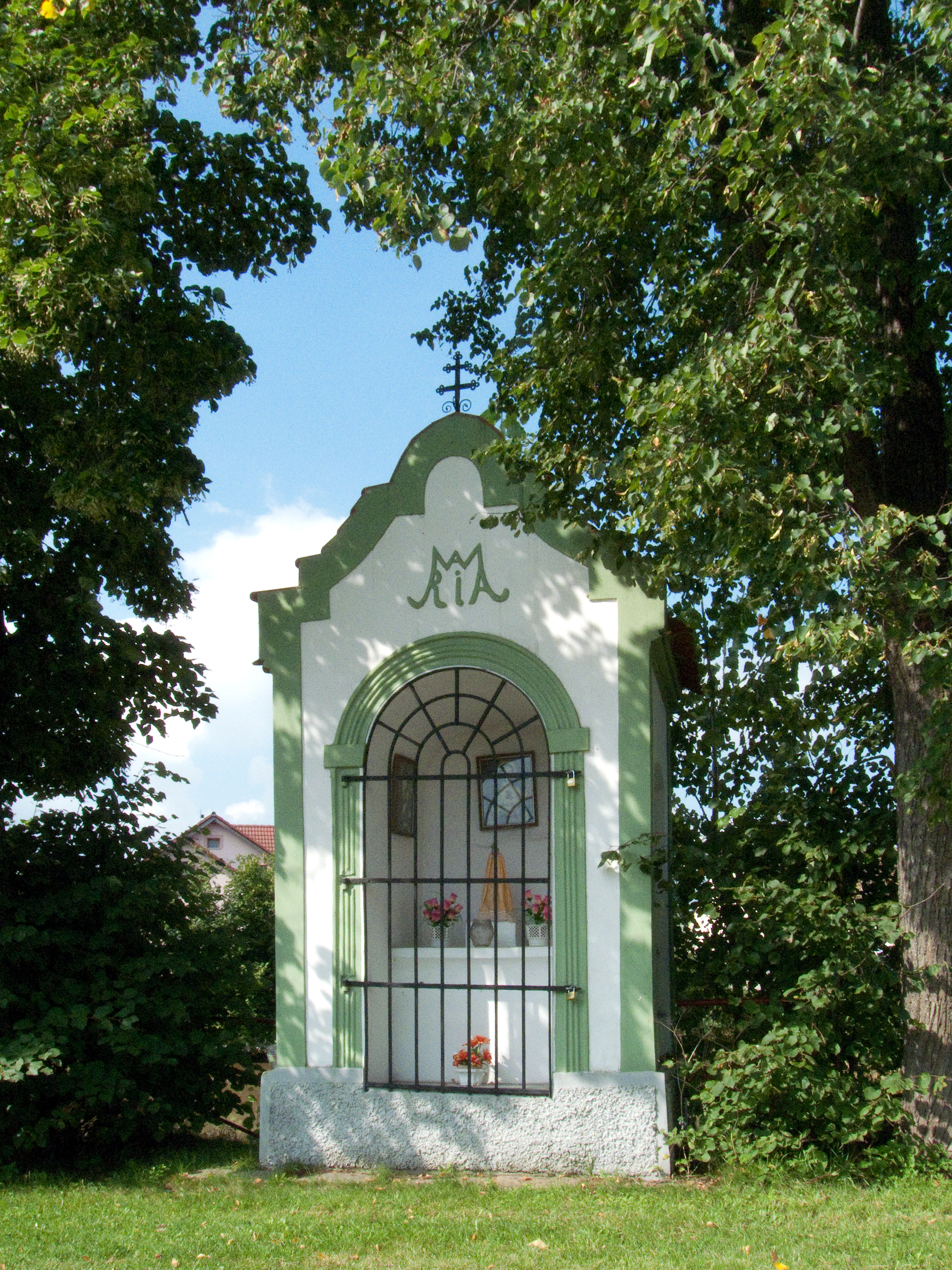 Chapel in Jaronice, České Budějovice district, Czech Republic